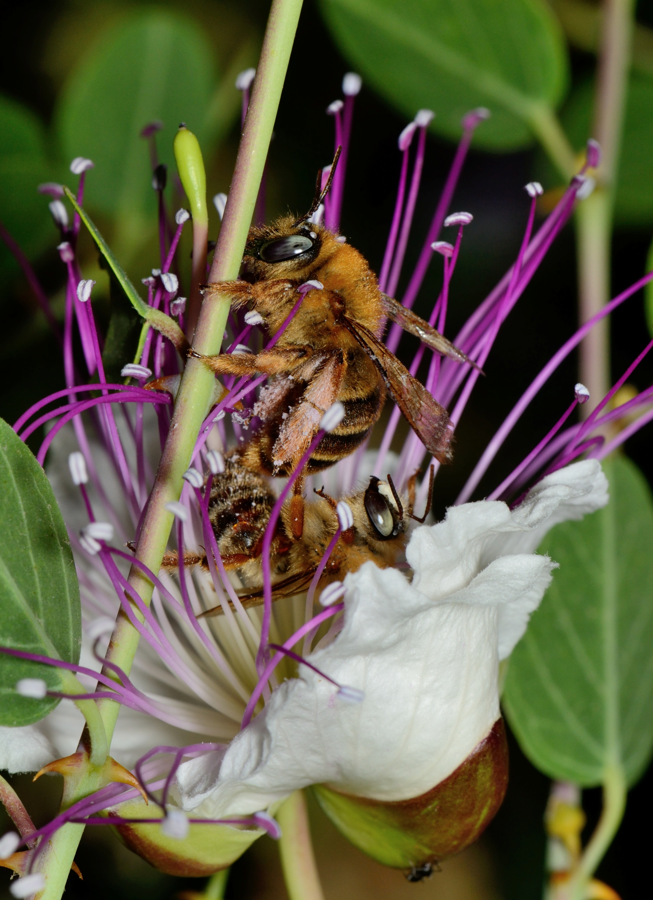 Xylocopa (Proxylocopa) olivieri, copulation on a flower of Capparis zoharyi, Mount Hermon, Israel, June 28, 2013.